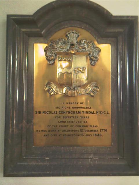 Monumental brass in Chelmsford Cathedral to Sir Nicolas Tindal, Lord Chief Justice of the Common Pleas 1829–46. Partial Blazon of Arms displayed: Per pale: 1. Argent a fesse dancetty Gules in chief three crescents of the last (for Deane); 2. ___ (for ___).